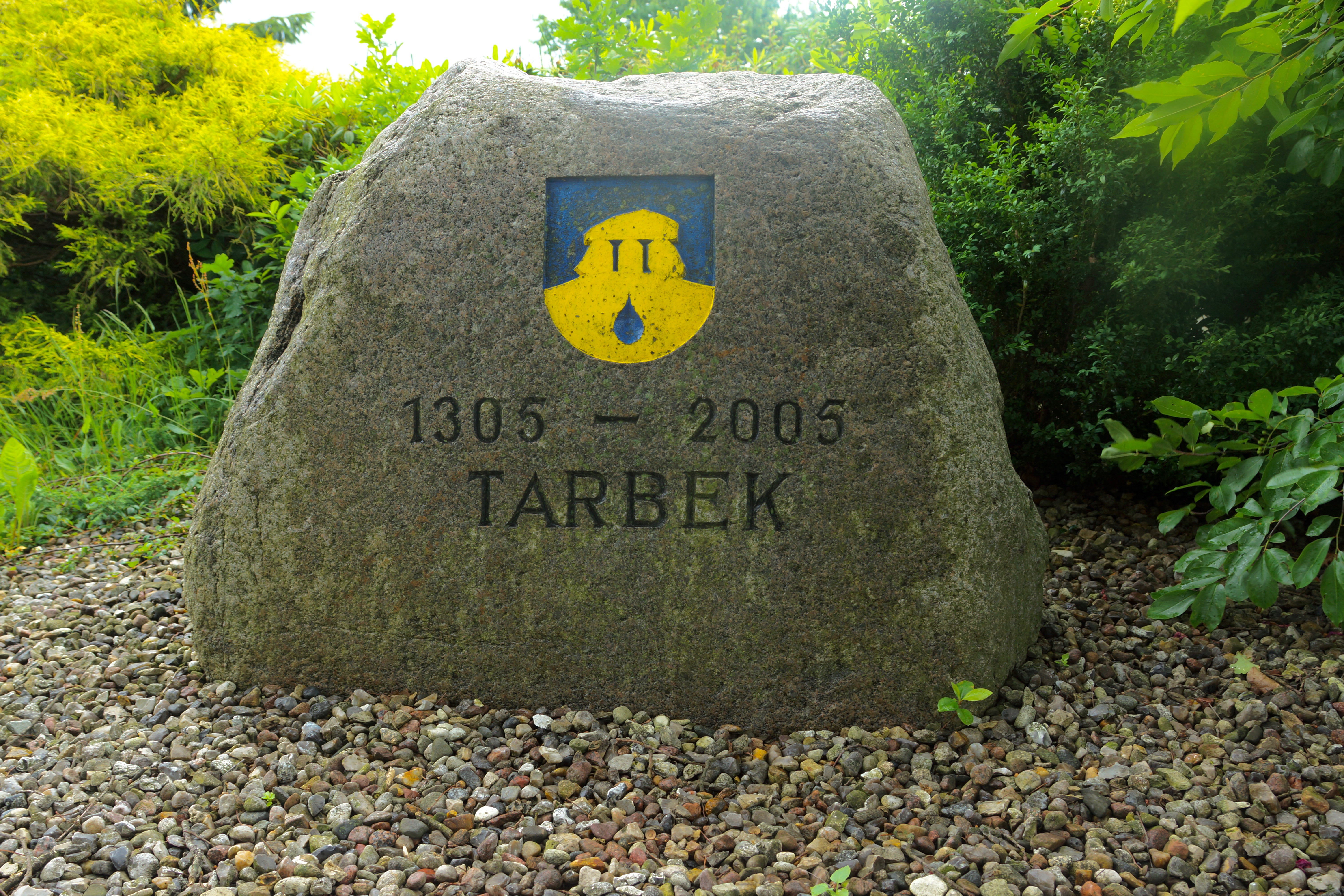 Tarbek, Germany: Memorial stone